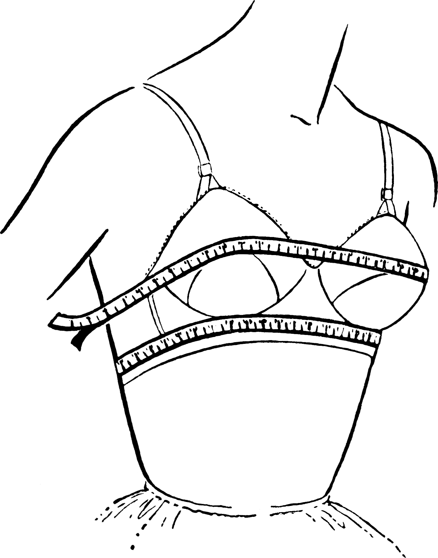 5. Measure for bra size: underbust measure plus 5 inches.